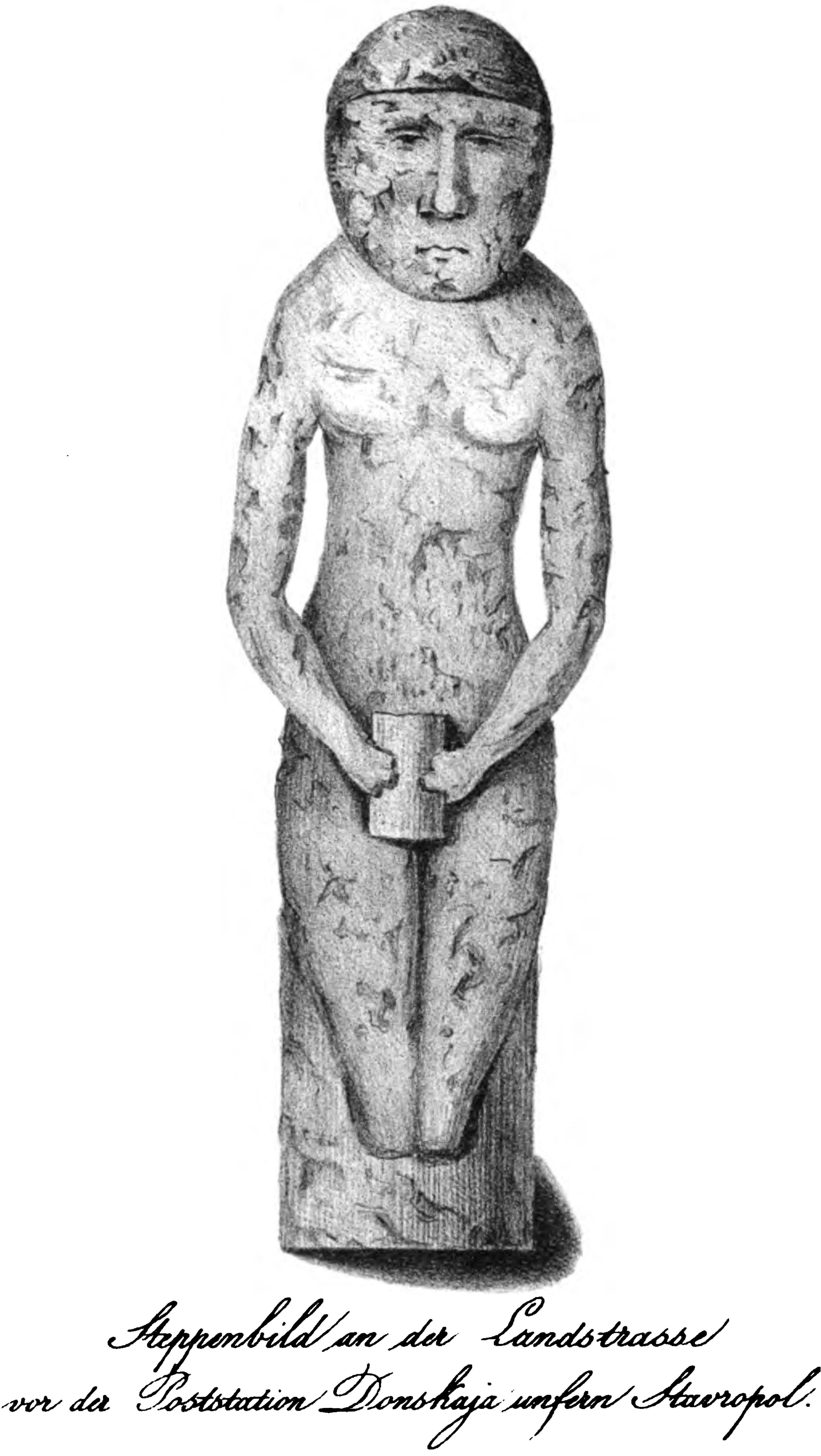 Carl Eduard von Eichwald, Reise auf dem Caspischen Meere und in den Caucasus: Unternommen in den jahren 1825-1826, Volume 1, Part 2